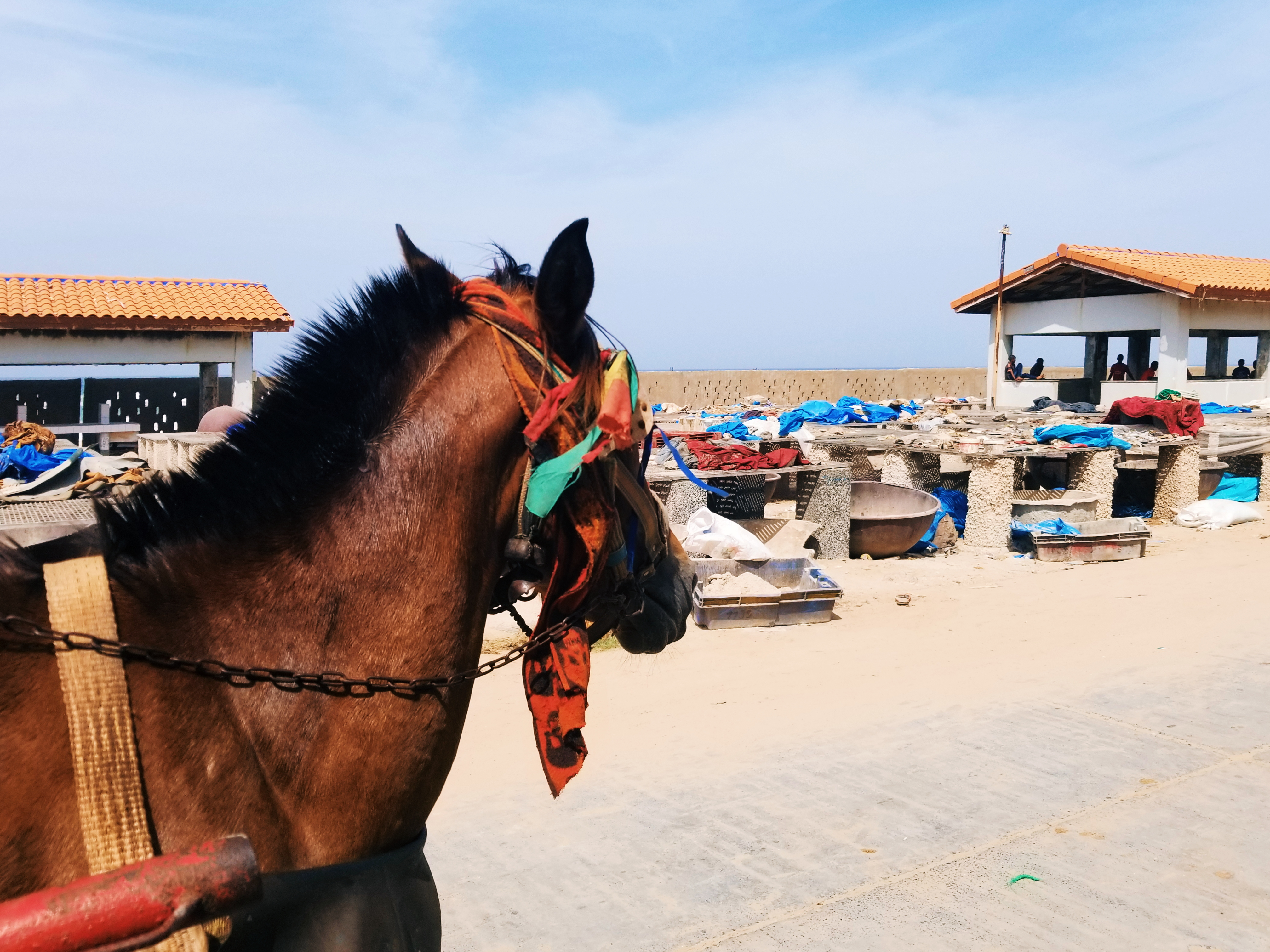 A fishmarket in Lampoul vellage This is an image with the theme "Africa on the Move or Transport" from: Senegal